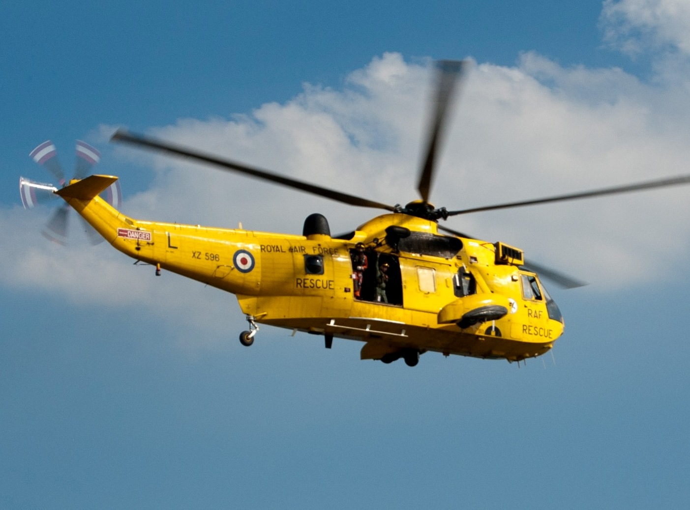 An S&R Sea King from RAF Leconfield, Leconfield, East Riding of Yorkshire, England.